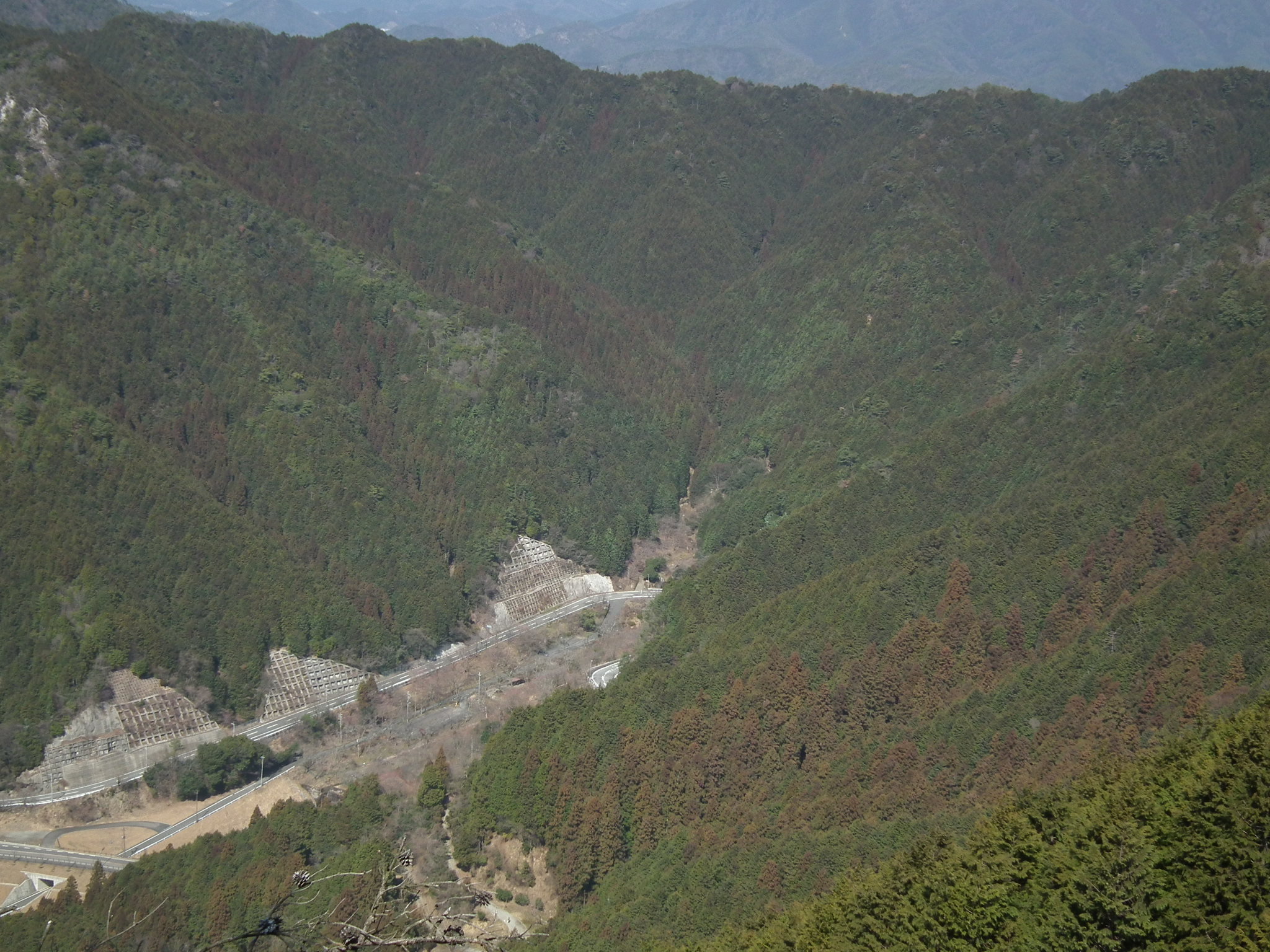 Route176,Kanegasaka-Toge